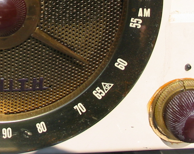 bdrothermel, photograph I took of personal possession.